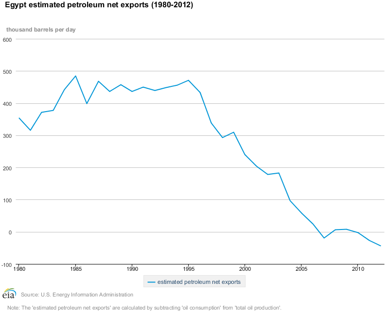 US EIA OIl Production and Consumption annual